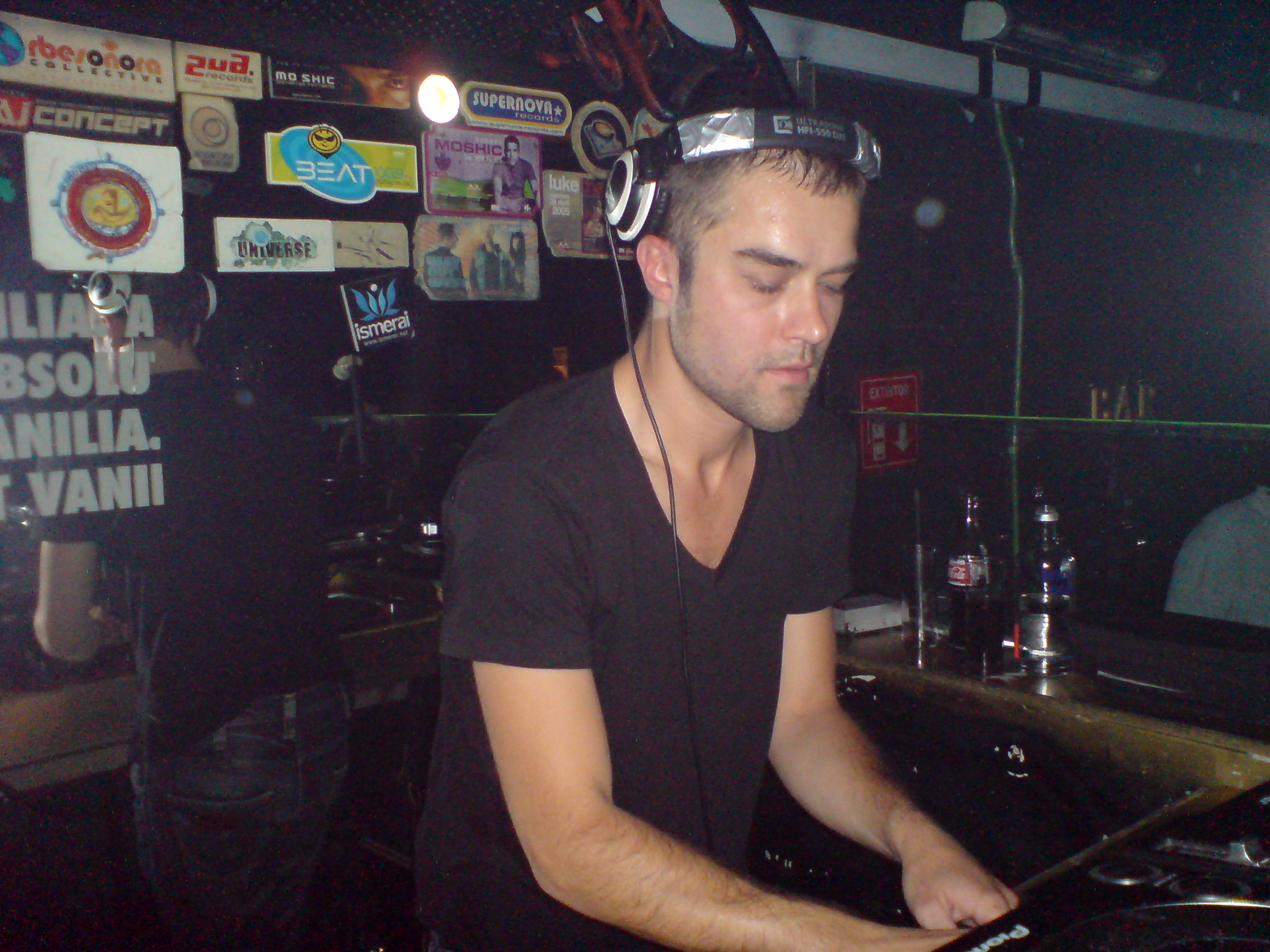 Chab At Continental Dj Club (Mexico City) 2007